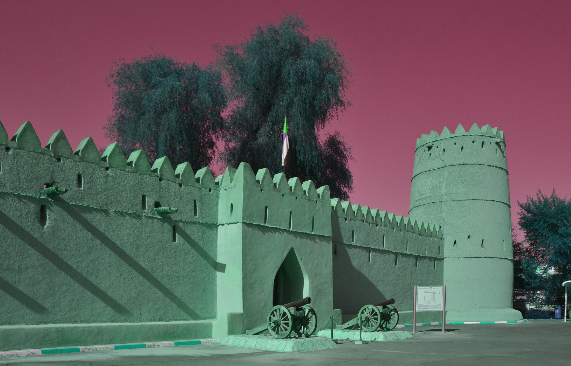 The Sheikh Sultan Bin Zayed Fort in Al-Ain in V.A.E..